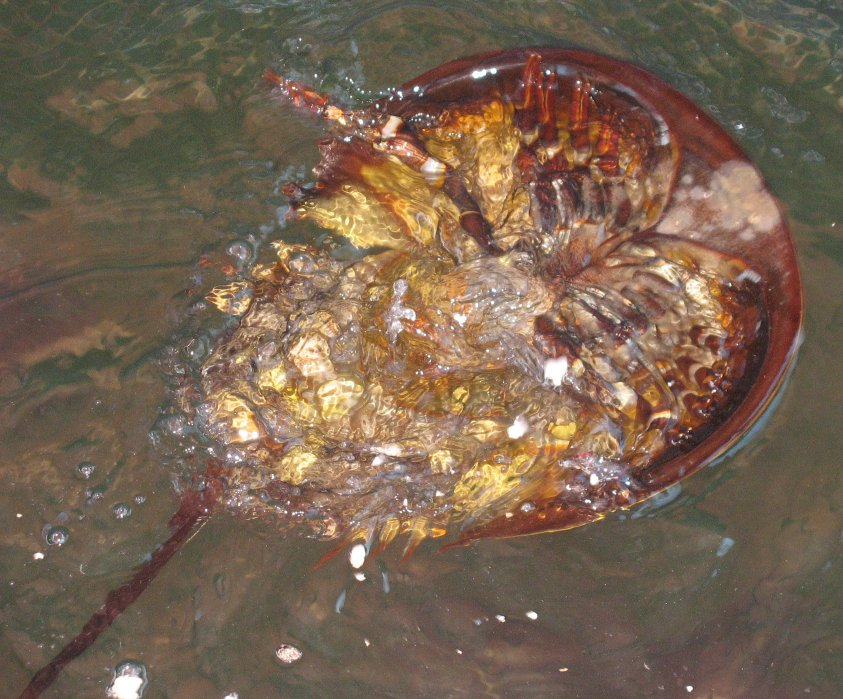 A limule in the Ha Long Bay